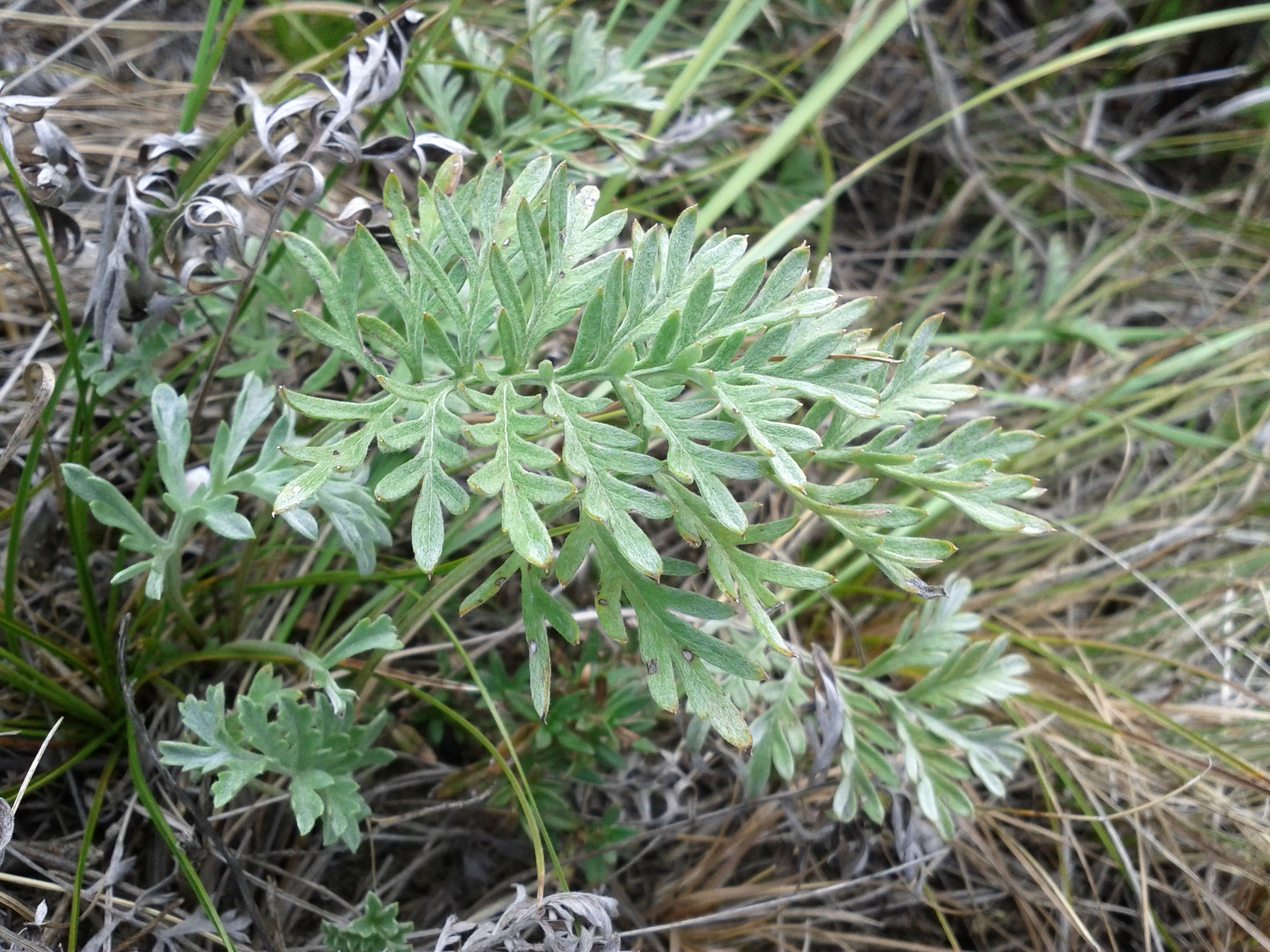 Sterile rosettes Taxonym: Artemisia pancicii ss Fischer et al. EfÖLS 2008 ISBN 978-3-85474-187-9 Location: west slope of Bisamberg, district Korneuburg, Lower Austria - ca. 300 m a.s.l. Habitat: rock steppe